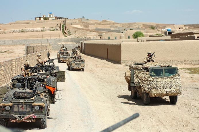 British Soldiers patrol Helmand Province.